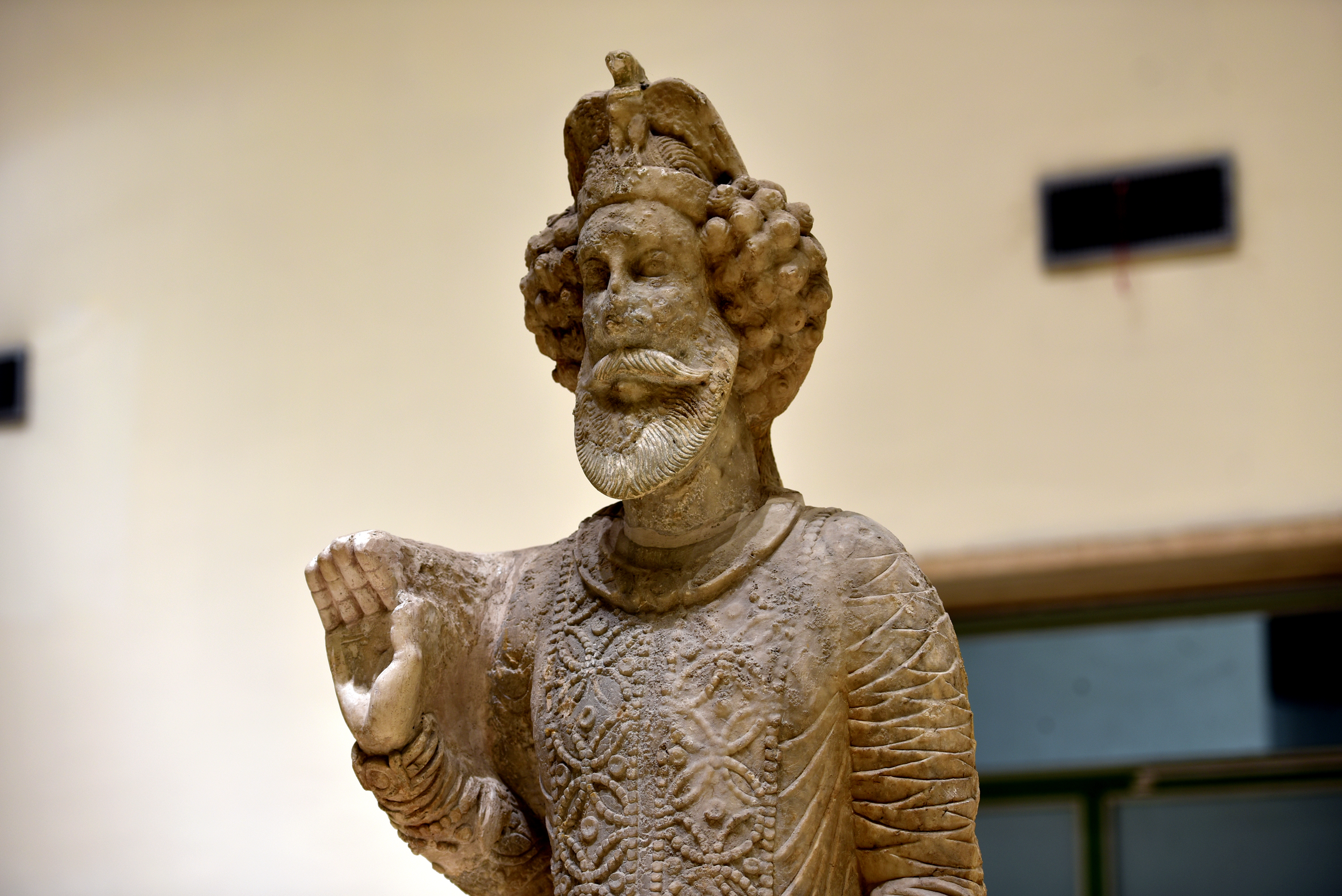 Statue of Sanatruq I, king of Hatra. 2nd century CE. From the 10th Temple at Hatra, Iraq. The Iraq Museum, Baghdad, Iraq.